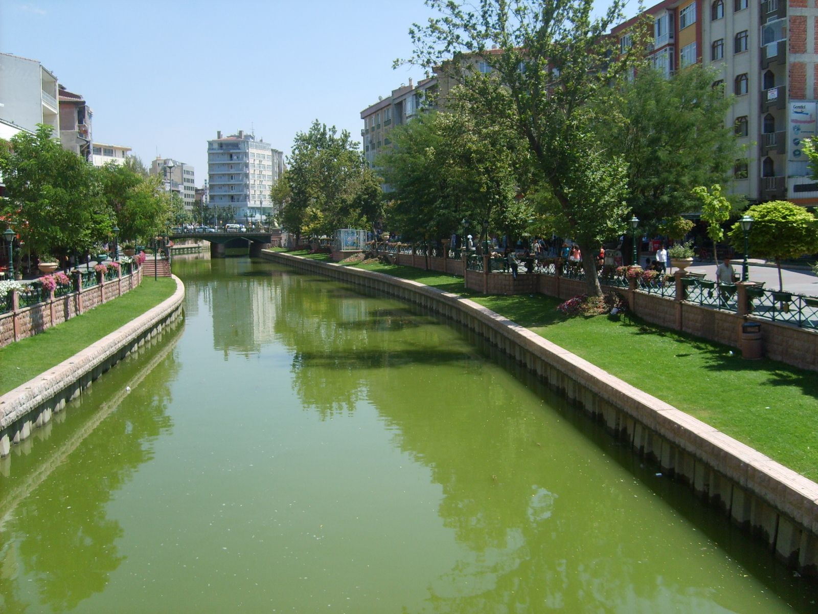 Eskişehir Adalar Porsuk